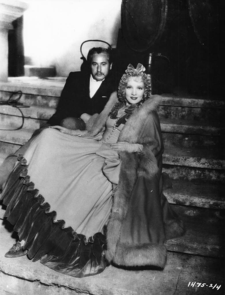 The Scarlet Empress (film 1934). Josef von Sternberg, director. On set with Marlene Dietrich as Princess Sophie. Paramount Pictures